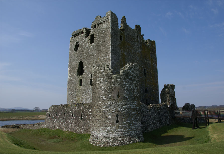 Threave Castle (Dumfries and Galloway, Scotland)